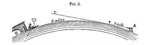 Illustration to Chapter 2, "Experiments", of Earth not a globe by Samuel Birley Rowbotham, published by Shirley, Marshall and Co, London, in 1881, oclc 29711500.